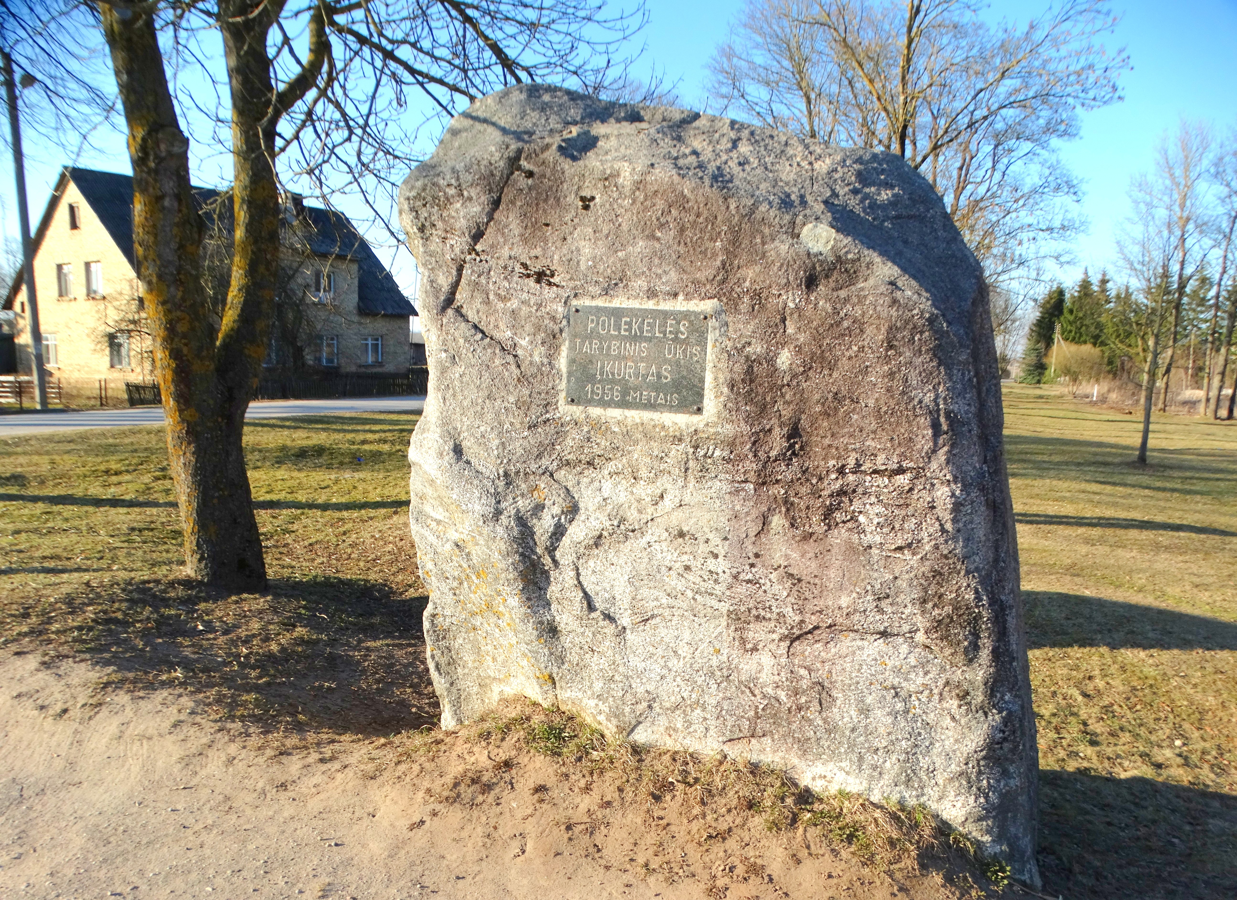 Stone in memory of the former Sovkhoz, Polekėlė, Radviliškis District, Lithuania